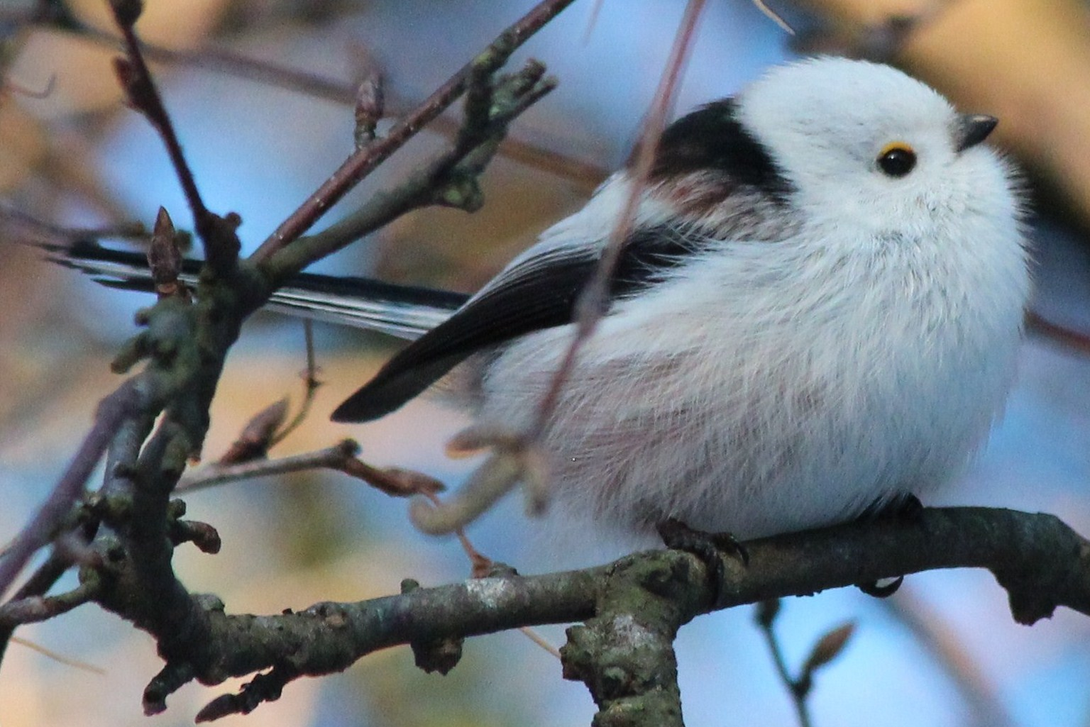 Long-tailed Tit Aegithalos caudatus, Göteborg, Sweden